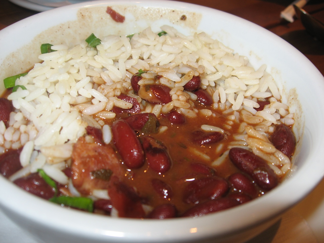 Red Beans and Rice at Angeline's Louisiana Kitchen - Berkeley, CA.